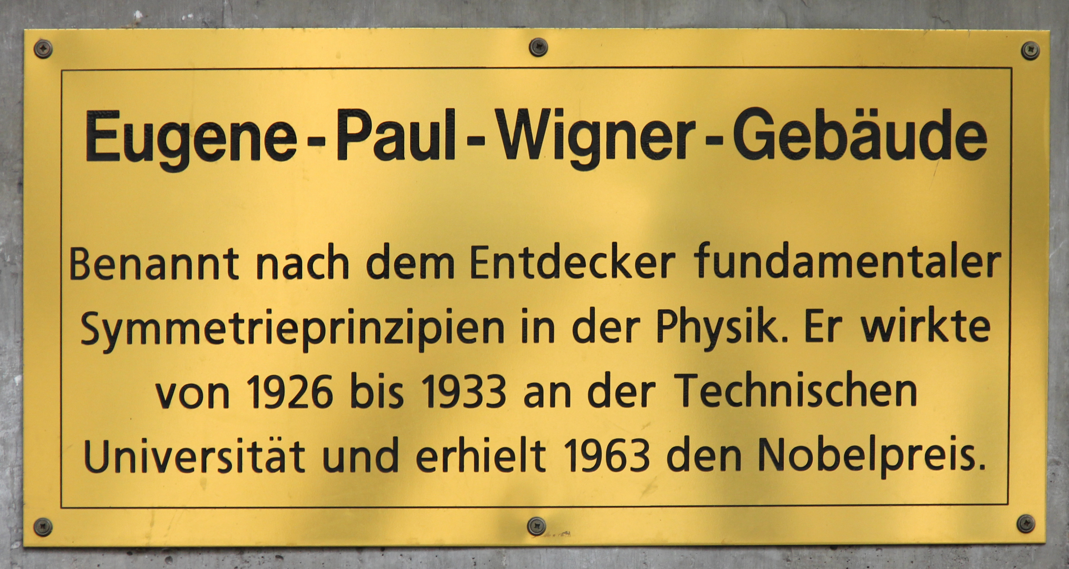 Memorial plaque, Eugene Paul Wigner, Hardenbergstraße 36, Berlin-Charlottenburg, Deutschland